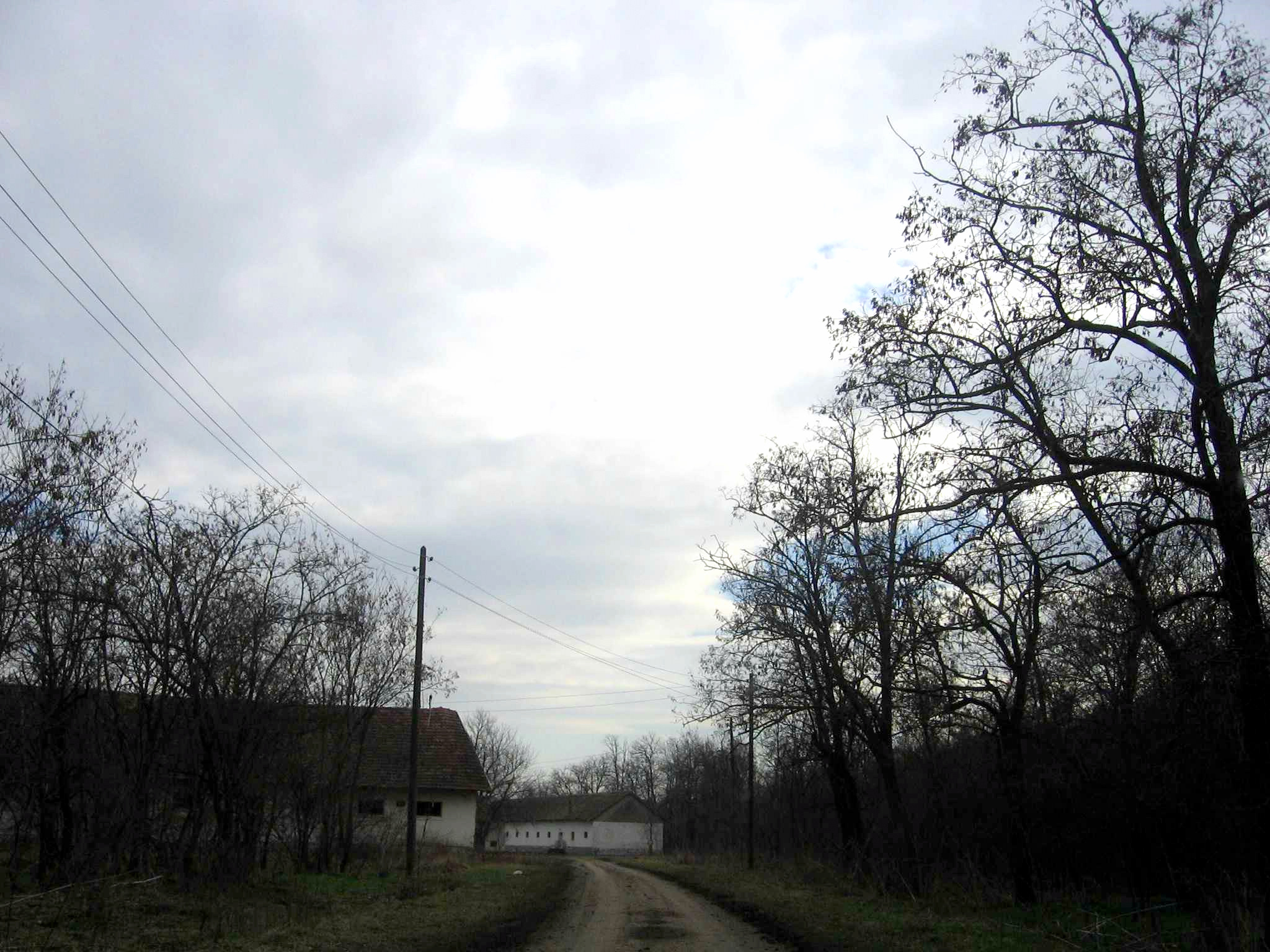 Beginning of Cooperativa Livade near Stajićevo in Vojvodina, Serbia